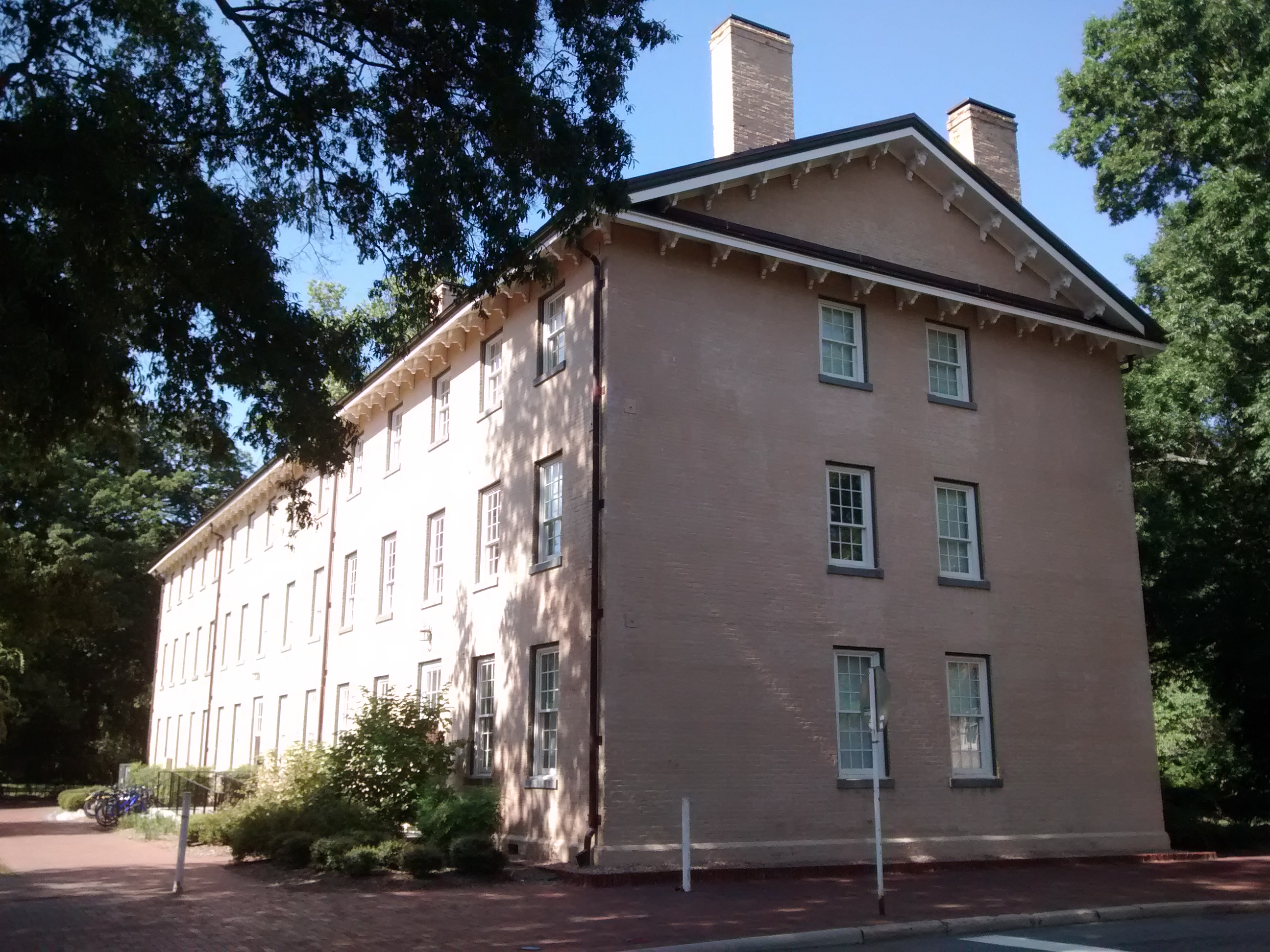 Old West Residence Hall at the University of North Carolina at Chapel Hill.